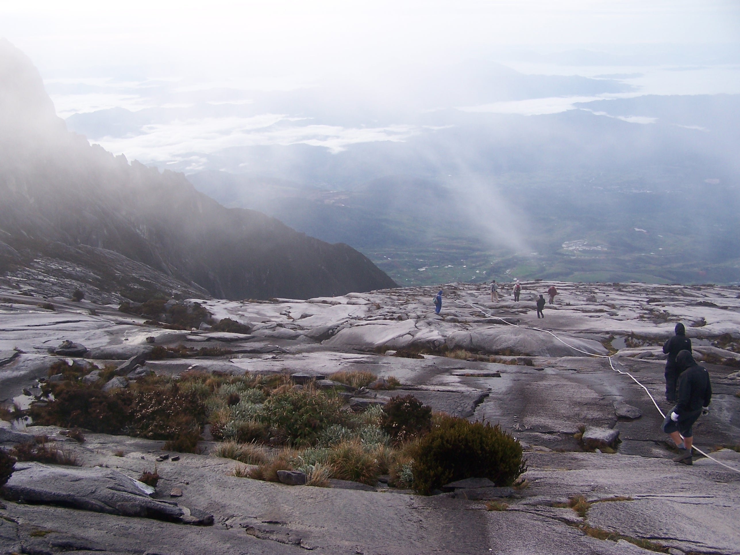 The top of the Mount Kinabalu mountain in Malaysian Borneo. Kota kinabalu.